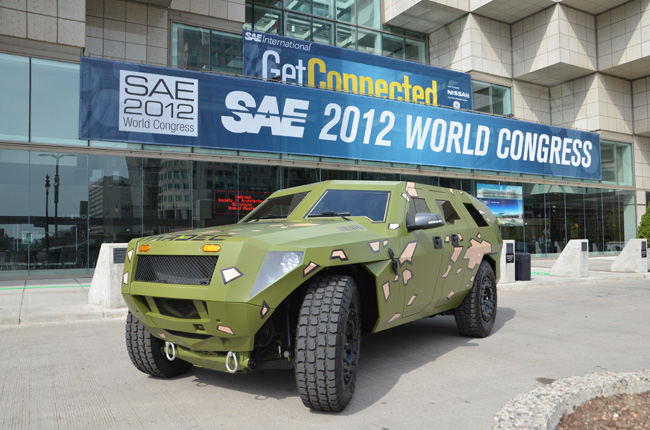 The Fuel Efficient ground vehicle Demonstrator (FED) Bravo vehicle, designed by TARDEC and industry partner ASRC Primus, made its public debut at the Society for Automotive Engineers (SAE) World Congress and Exhibition April 24-26 at Cobo Center in Detroit. The Secretary of Defense funded the Army program to test commercially available fuel-efficient systems on a military application.